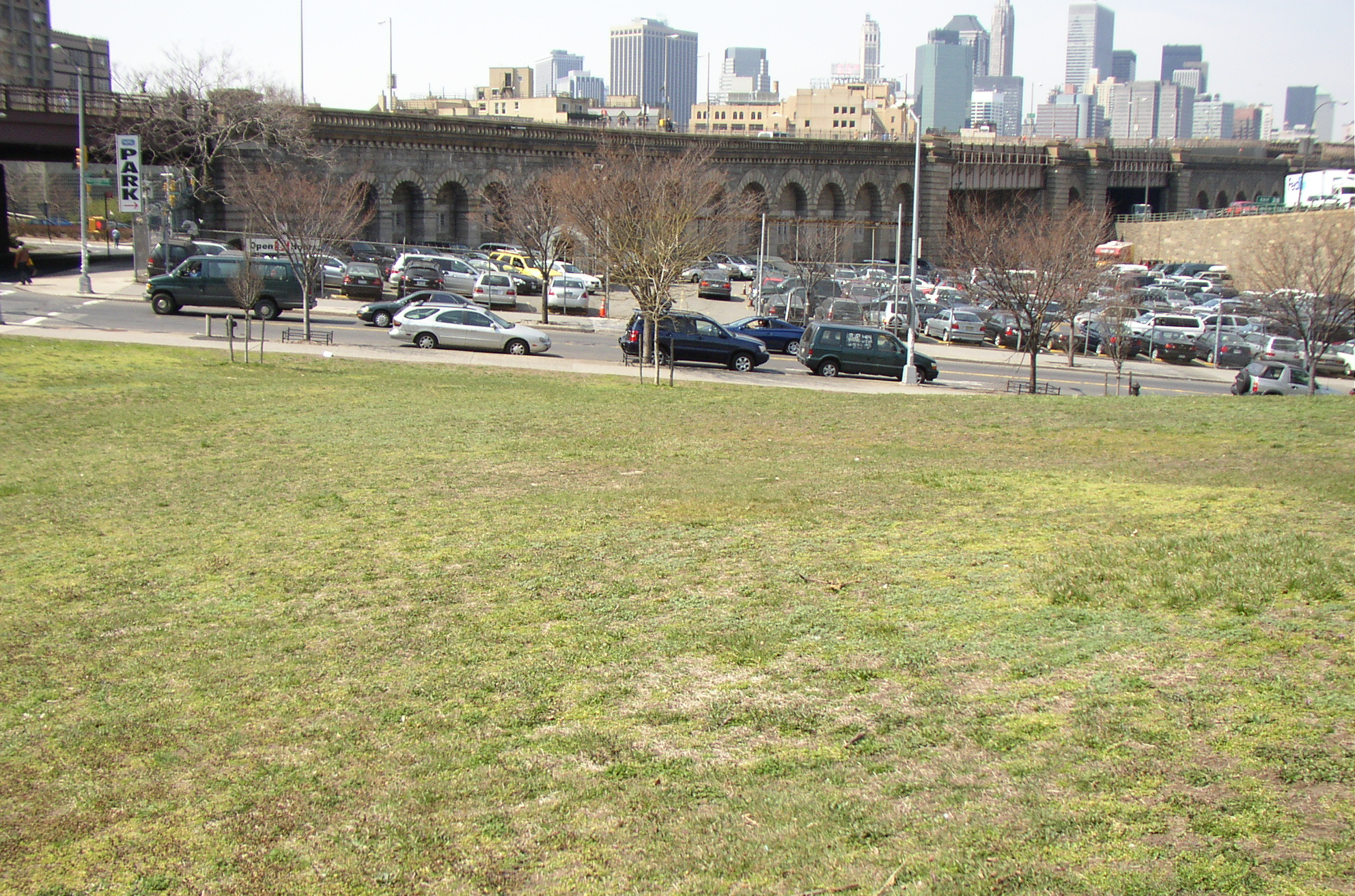 Ramps of the Brooklyn Bridge in Brooklyn (Dumbo)